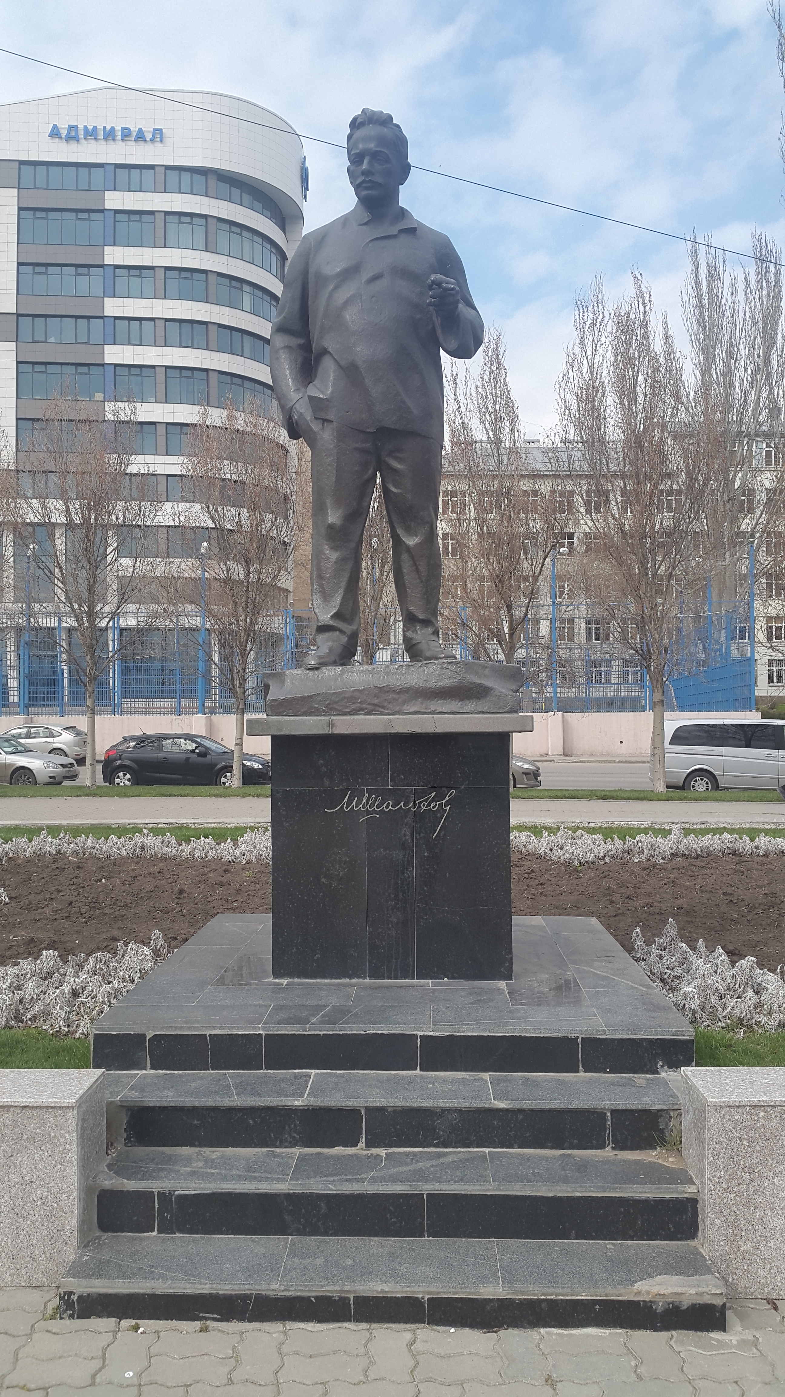 M. Sholohov monument. Riverside Rostov-on-Don.